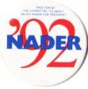 Draft Ralph Nader '92